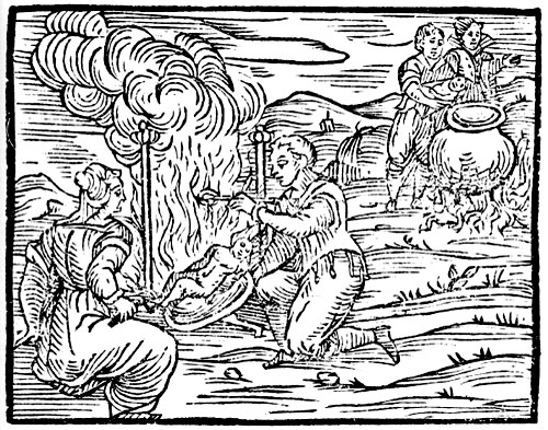 Picture from the book "Compendium maleficarum" by Francesco Mario Guazzo, 1608